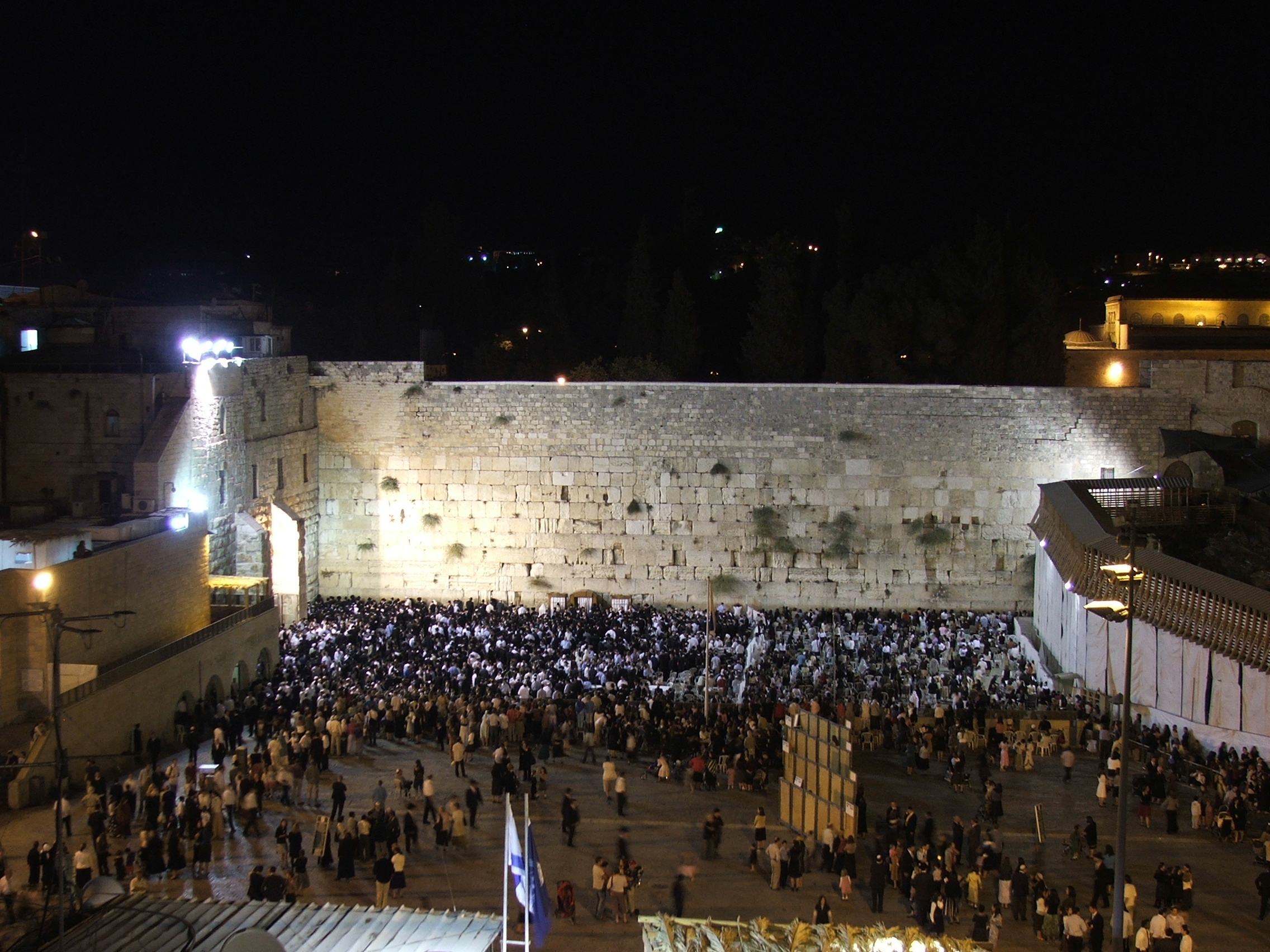 Nightshot of the Western Wall in Old Jerusalem